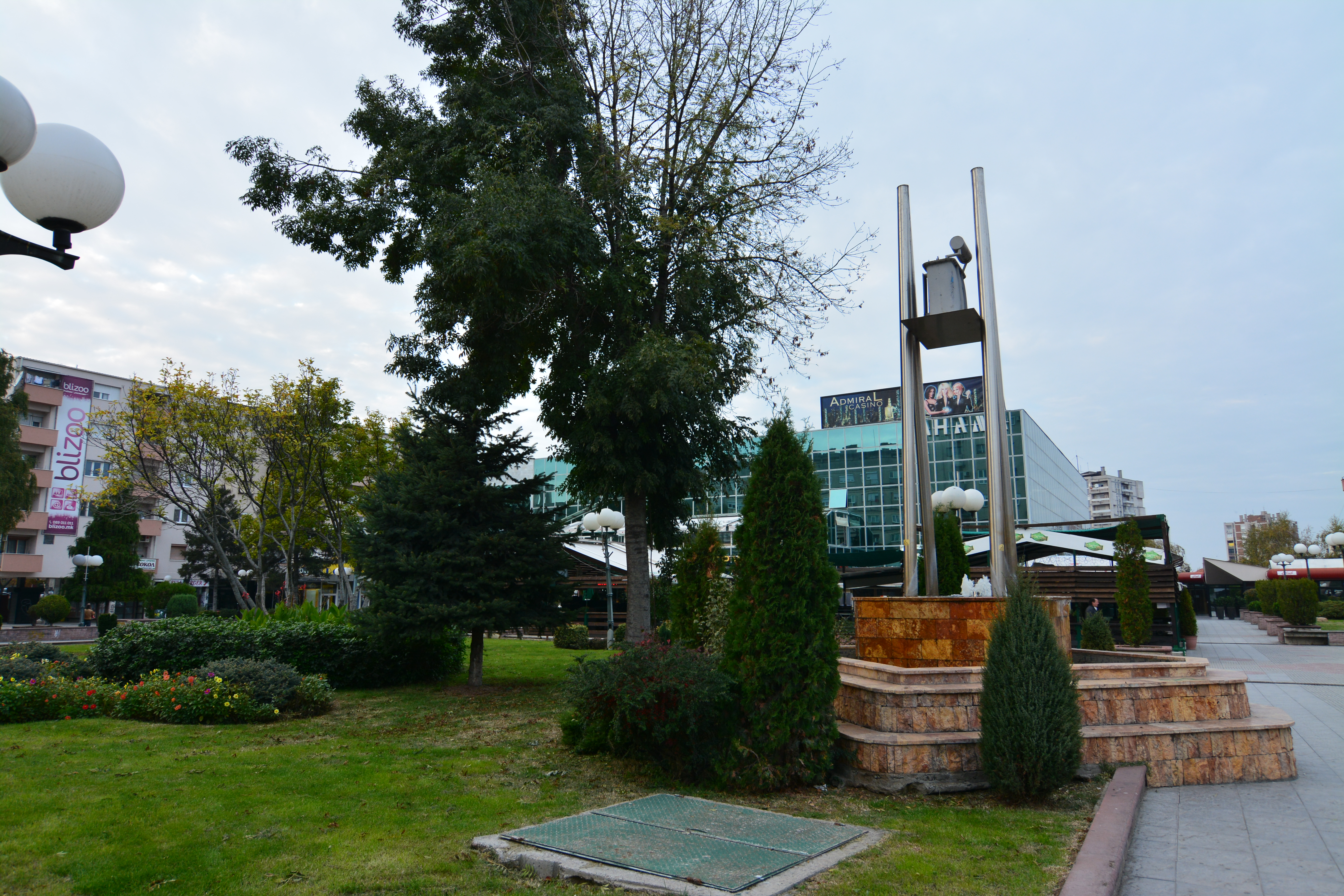 In Kumanovo, "Four Poles"